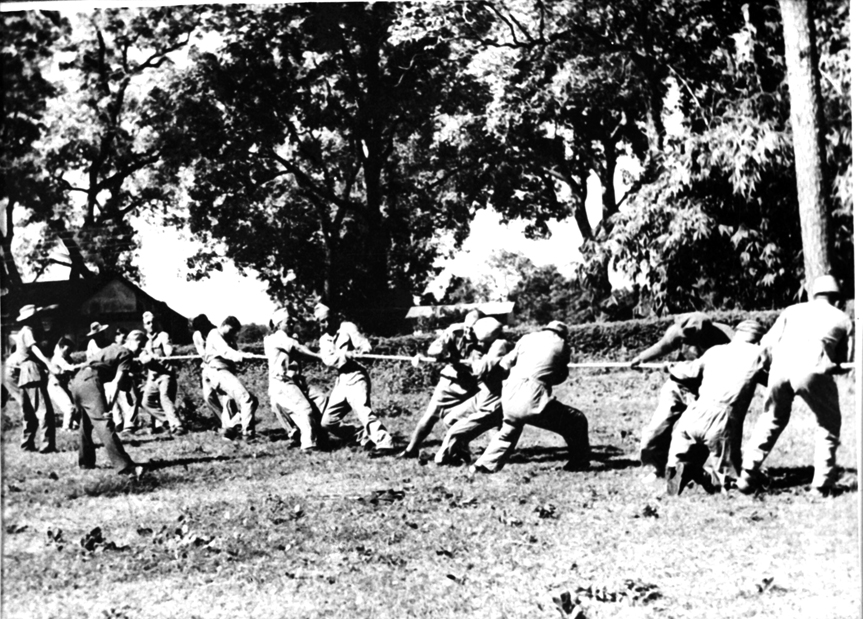 Training Centre For Adult Blind (Edu. Ministry)/July,1951,A12g Tug-of-War is one of the games played by the Blind persons at the Training Centre for the Adult Blind at Dehra Dun.